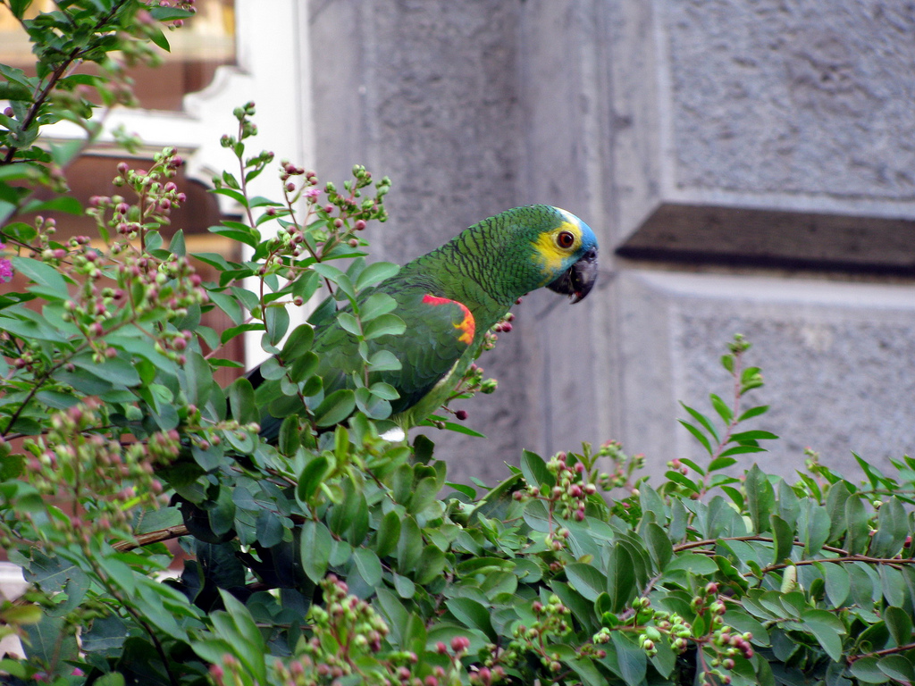 A Blue-fronted Amazon parrot in Naples, Italy. It is most likely to be an escaped and lost pet parrot.